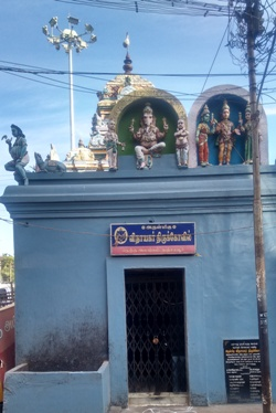 Thanjavur thoppulpillayar temple தஞ்சாவூர் தொப்புள் பிள்ளையார் கோயில்